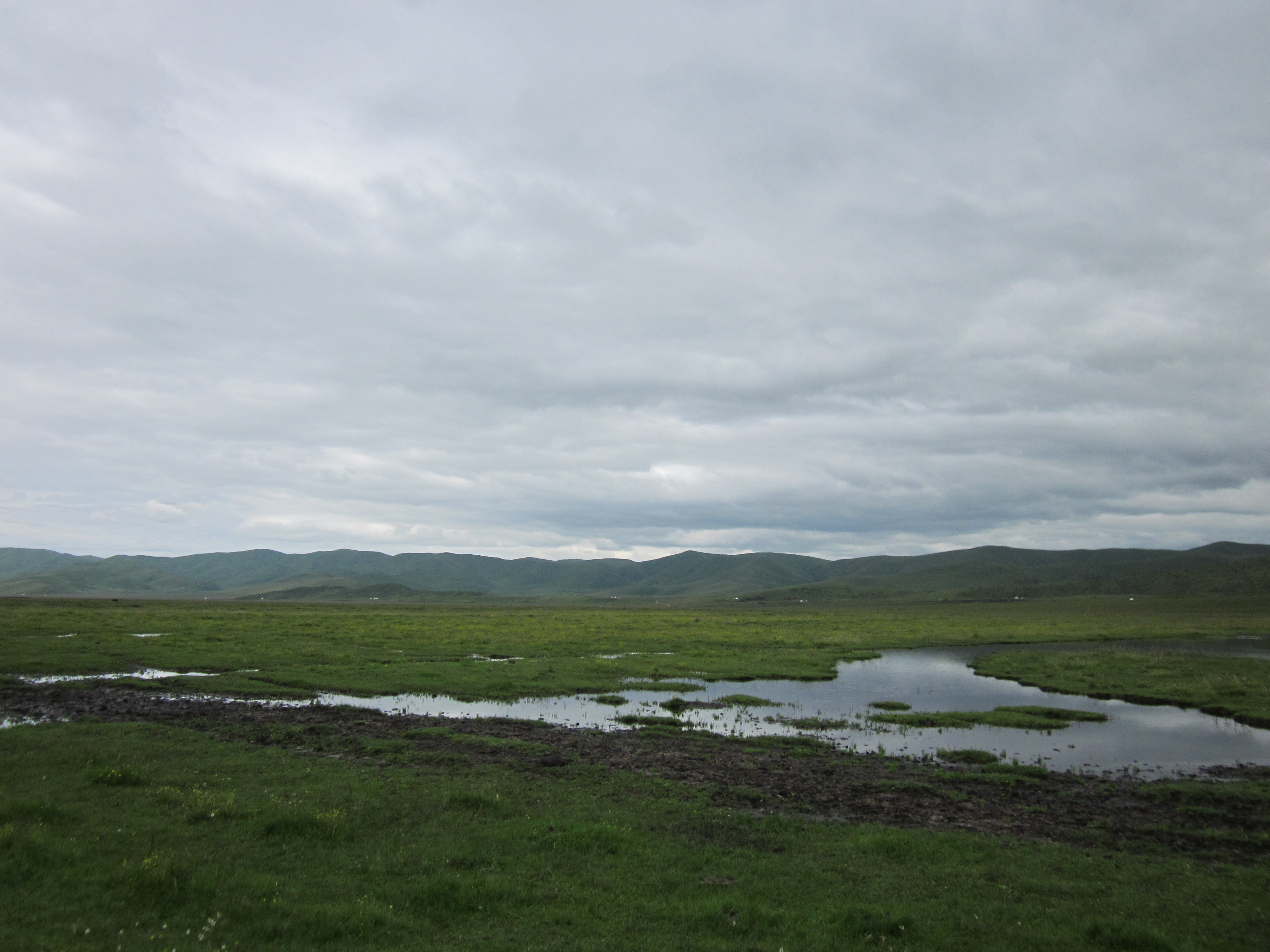 Grasland in Hongyuan County, Sichuan Province